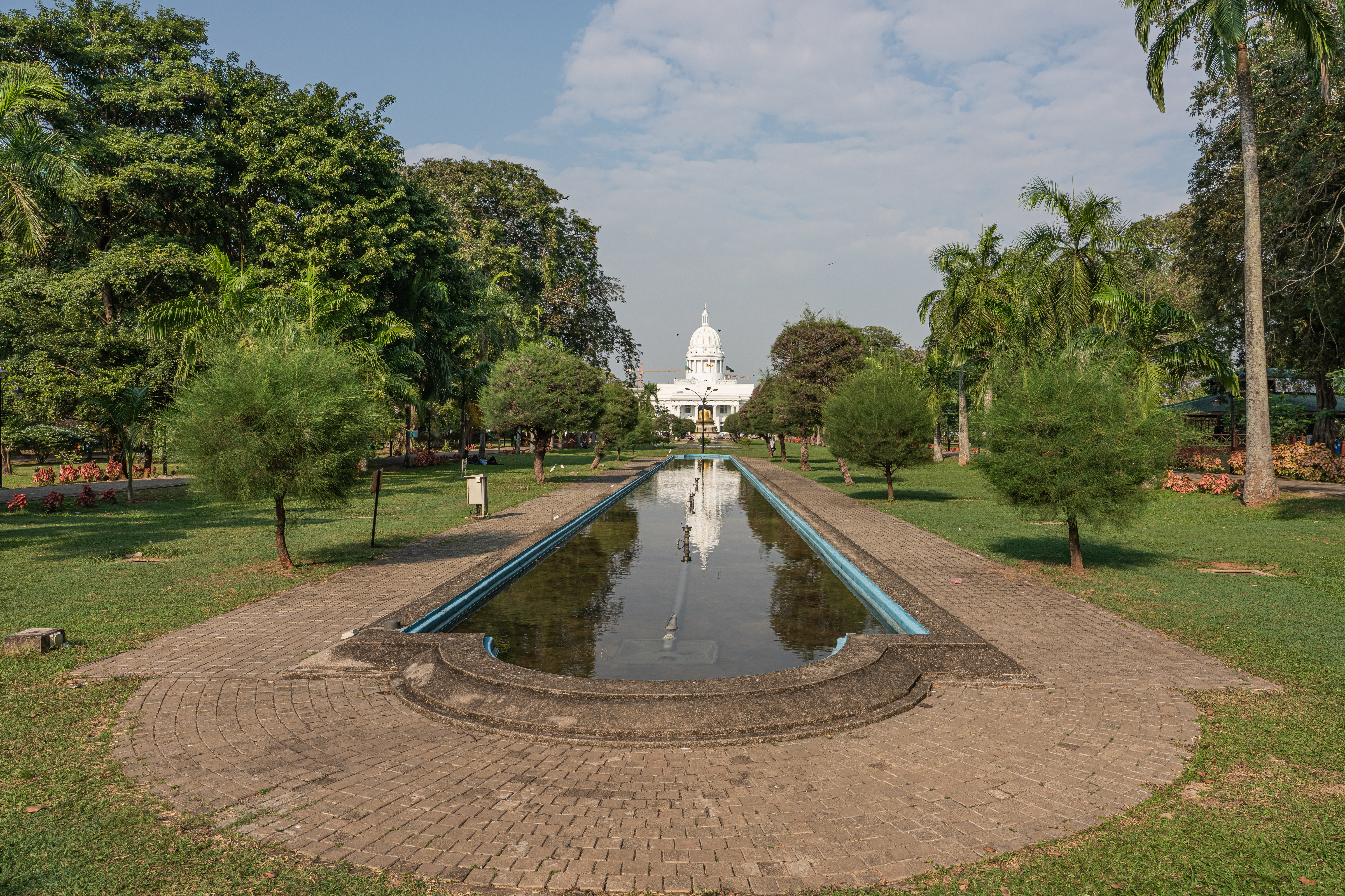 Viharamahadevi Park in Colombo, Sri Lanka